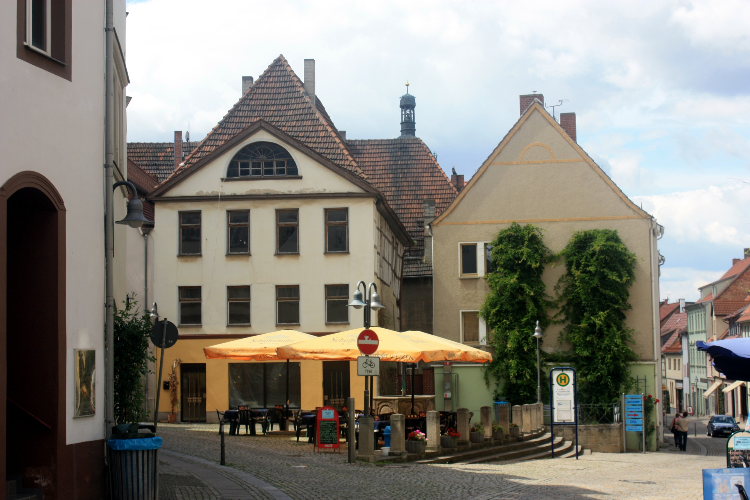 Sangerhausen, the Kornmarkt